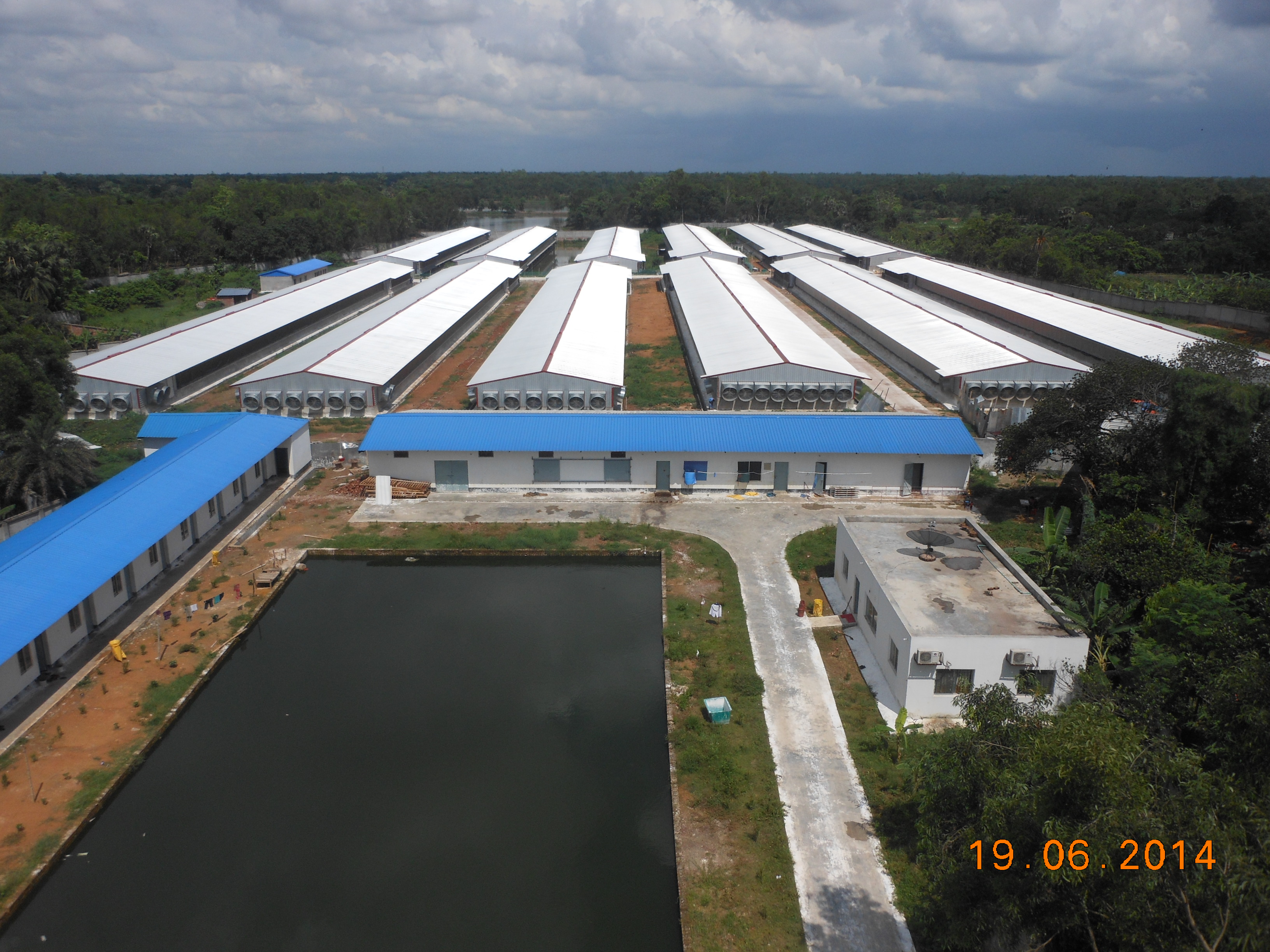 New Hope Farm-1, By Maniruzzaman